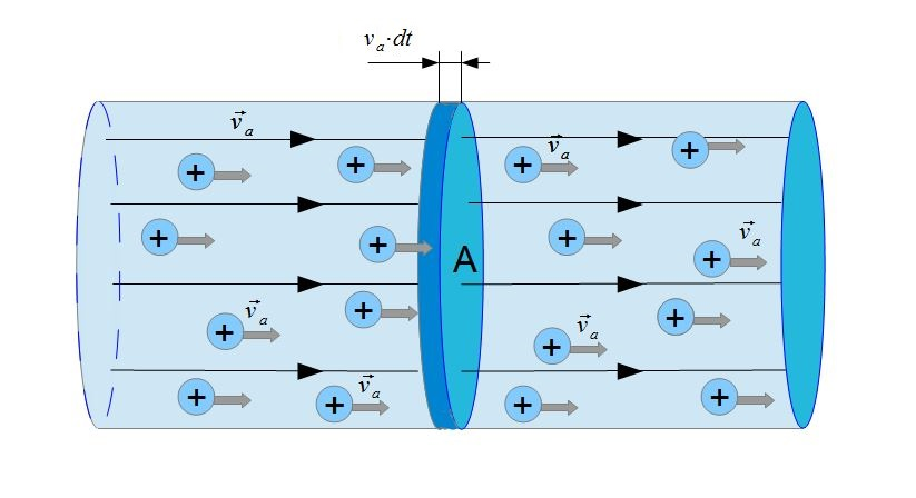 Detalle de un conductor eléctrico